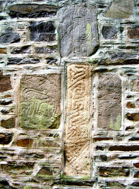 Pictish symbol stones in the wall of Fyvie Kirk, Fyvie, Aberdeenshire